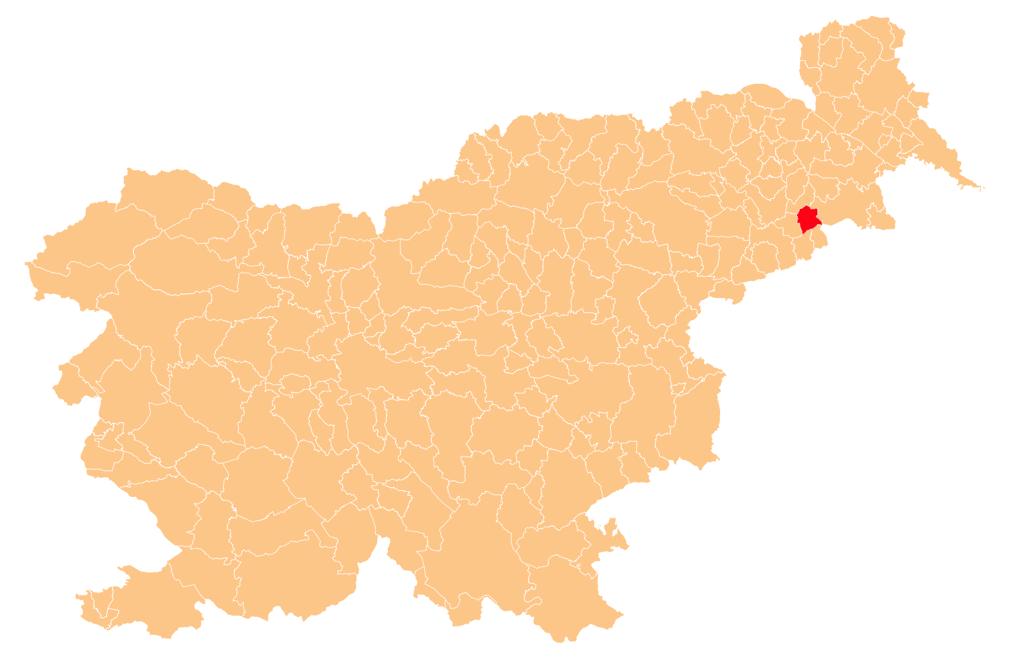 modified from file:Obcine Slovenija 2006.svg to show extent of Gorišnica municipality